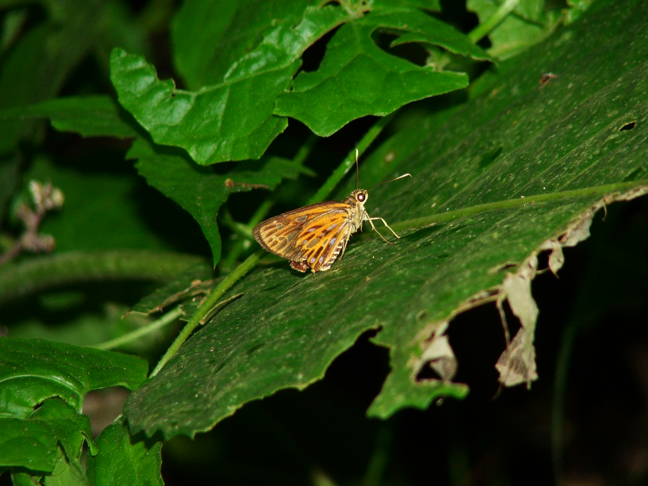 Pyroneura latoia latoia. Clicked in Namdapha National Park, Arunachal Pradesh in November 2005 - Rahul K. Natu